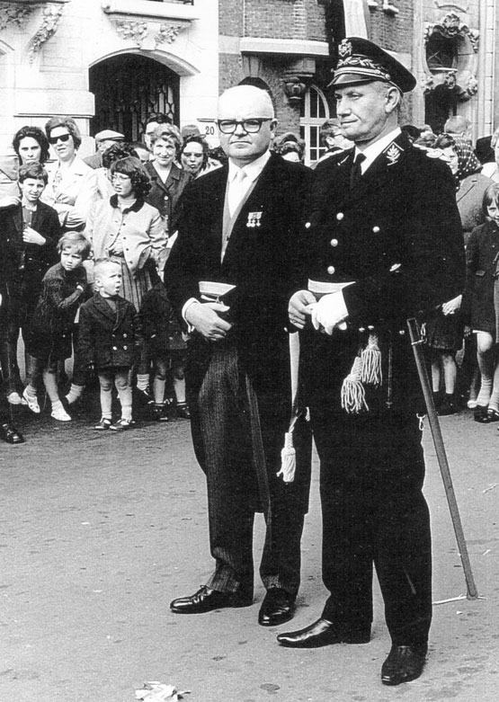 1966-06-04 mayor William Bruynincx, head of police Henri Hillewaert awaiting Belgian king Boudewijn Dendermonde